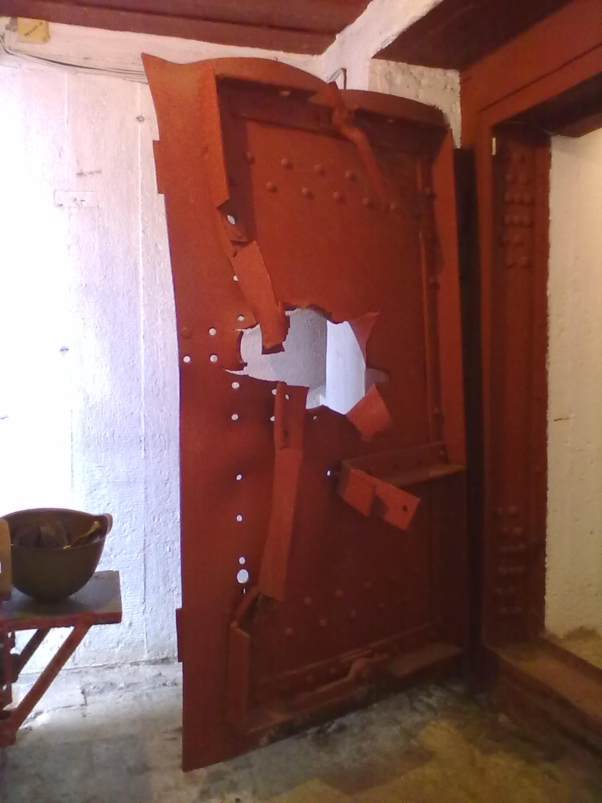 A steel door in the pillbox 180 (Kiev Fortified Region) in Vita-Pochtovaya which was destroyed by an explosion during a German attack 1941.